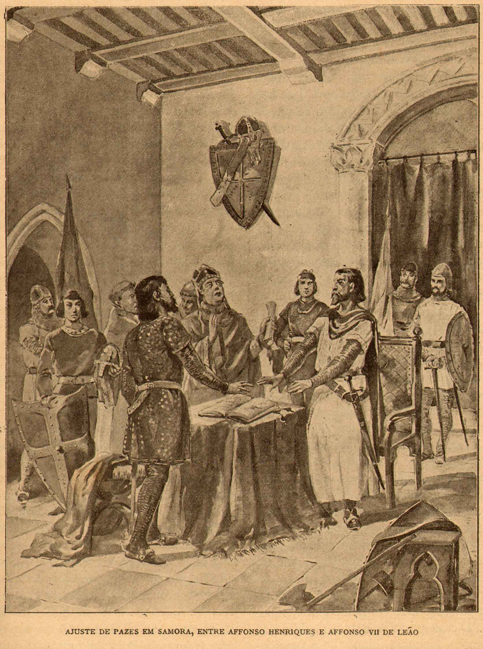 Illustration by Alfredo Roque Gameiro in the book História de Portugal, popular e ilustrada, by Manuel Pinheiro Chagas